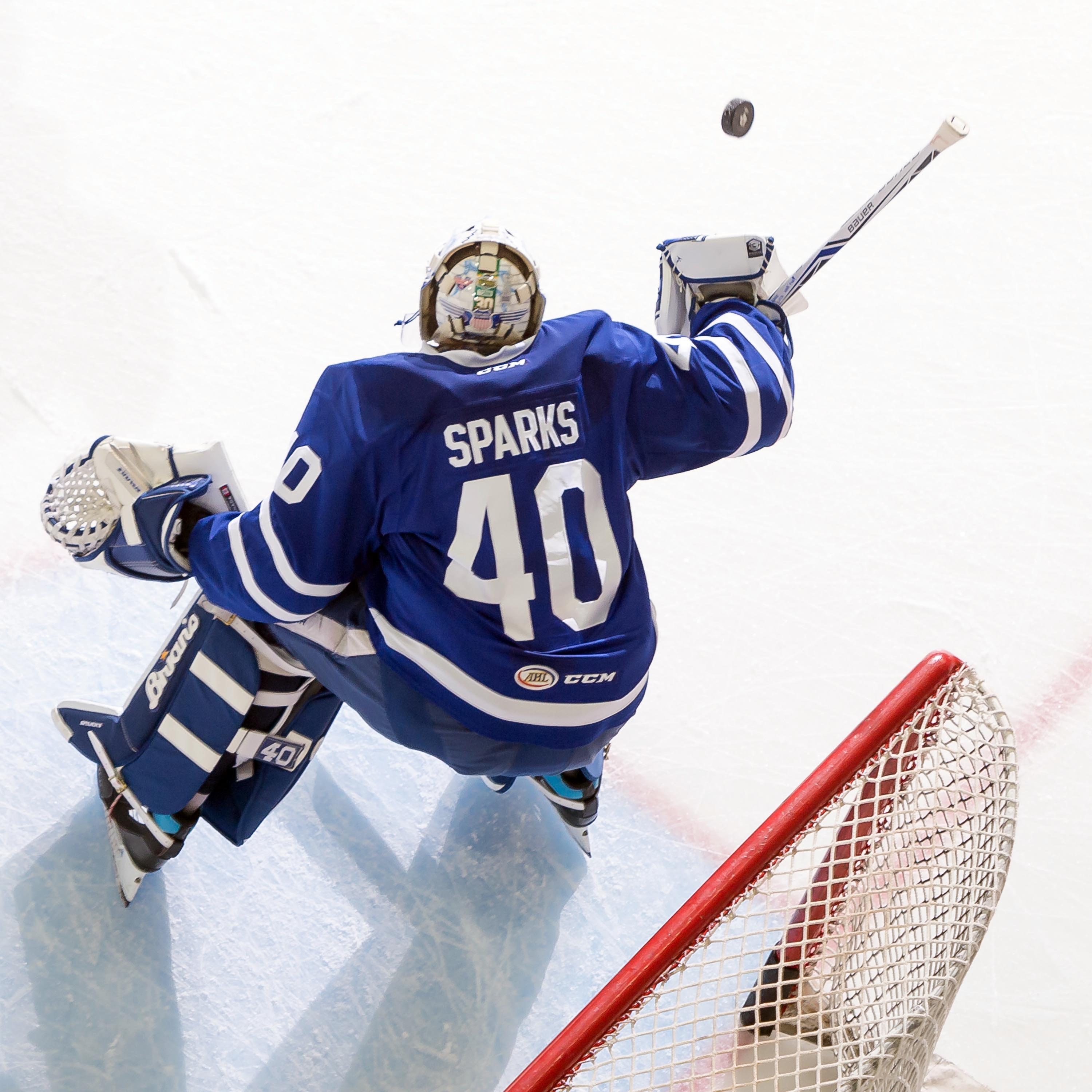 Photo: Christian Bonin